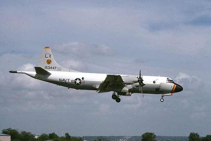 VP-90 (LX 1) P-3B (BuNo 153447) on approach to NAS Dallas, date unknown. Photographed by Keith Snyder. Repository: San Diego Air and Space Museum Archive